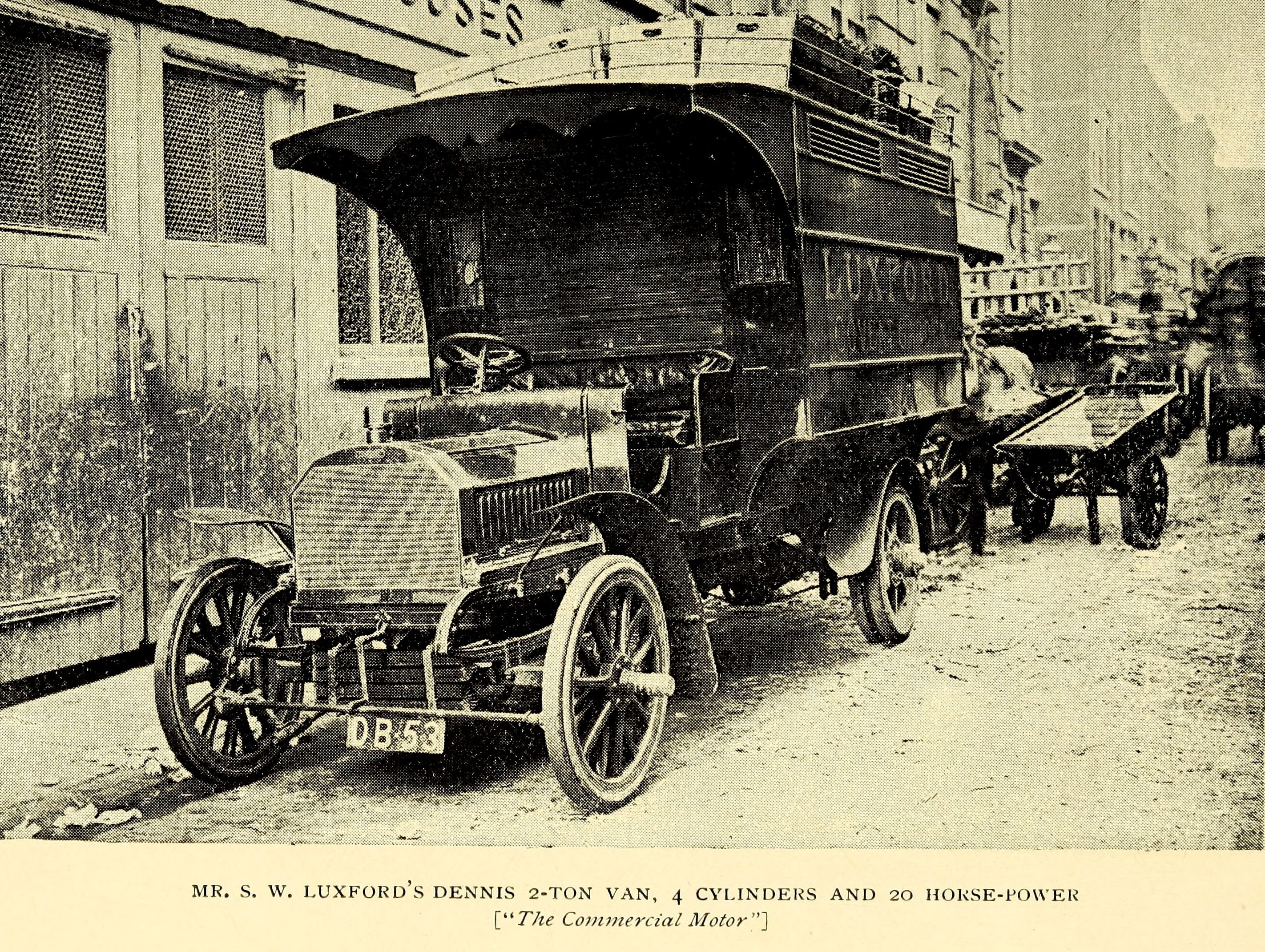 Title: Book of market gardening Year: 1906 (1900s) Authors: Castle, R. Lewis Subjects: Truck farming Publisher: London ; New York : John Lane Text Appearing Before Image: ' Text Appearing After Image: '